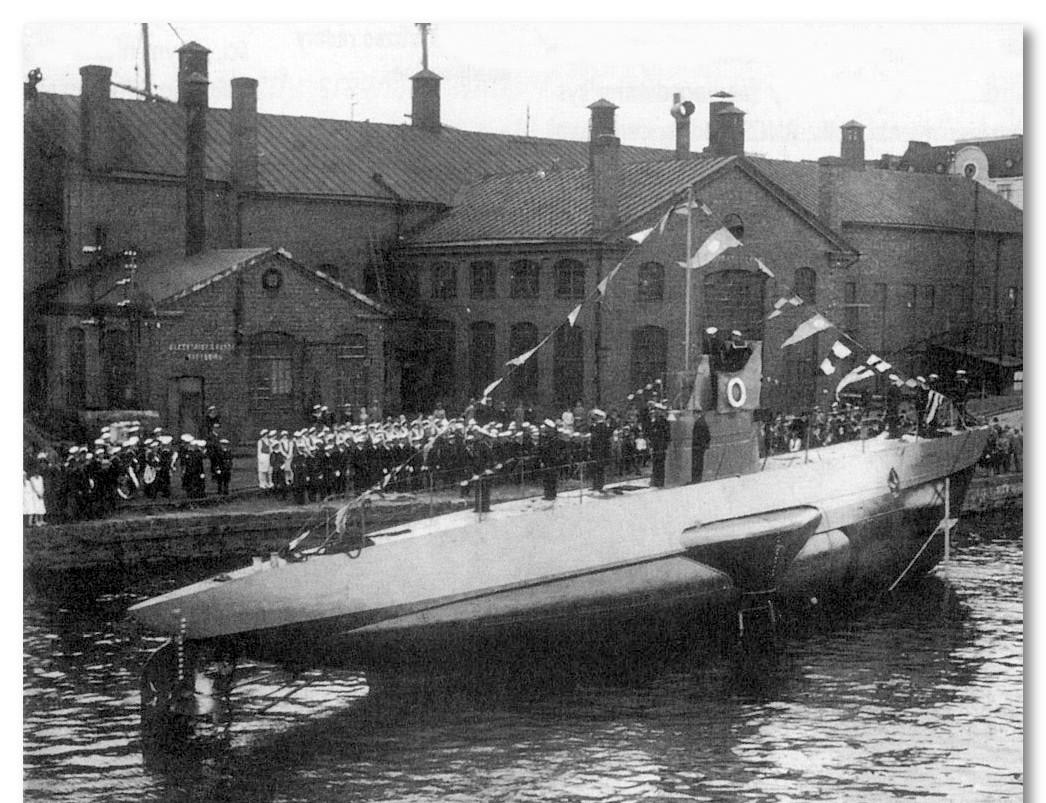 Launch of Finnish submarine Saukko in Hietalahti shipyard, July 2, 1930.